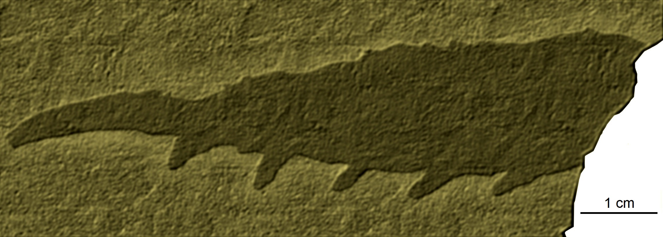 Mureropodia apae, Lower Cambrian xenusian from Murero, Zaragoza province, Spain). Simulated recreation of the fossil based on a photography.* See: Gámez Vintaned, J. A., Liñán, E. y Zhuravlev, A. Yu. (2011). «A new early Cambrian lobopod-bearing animal (Murero, Spain) and the problem of the ecdysozoan early diversification». In: Pontarotti, P. (ed.) Evolutionary Biology. Concepts, Biodiversity, Macroevolution and Genome Evolution. Berlín, Heidelberg: Springer-Verlag. Pages 193-219* File and actual image at Saragossa University